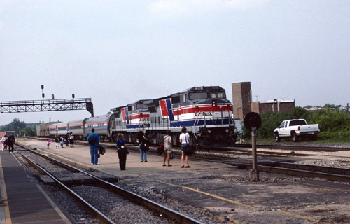 The southbound State House at Joilet Union Station in June 1999